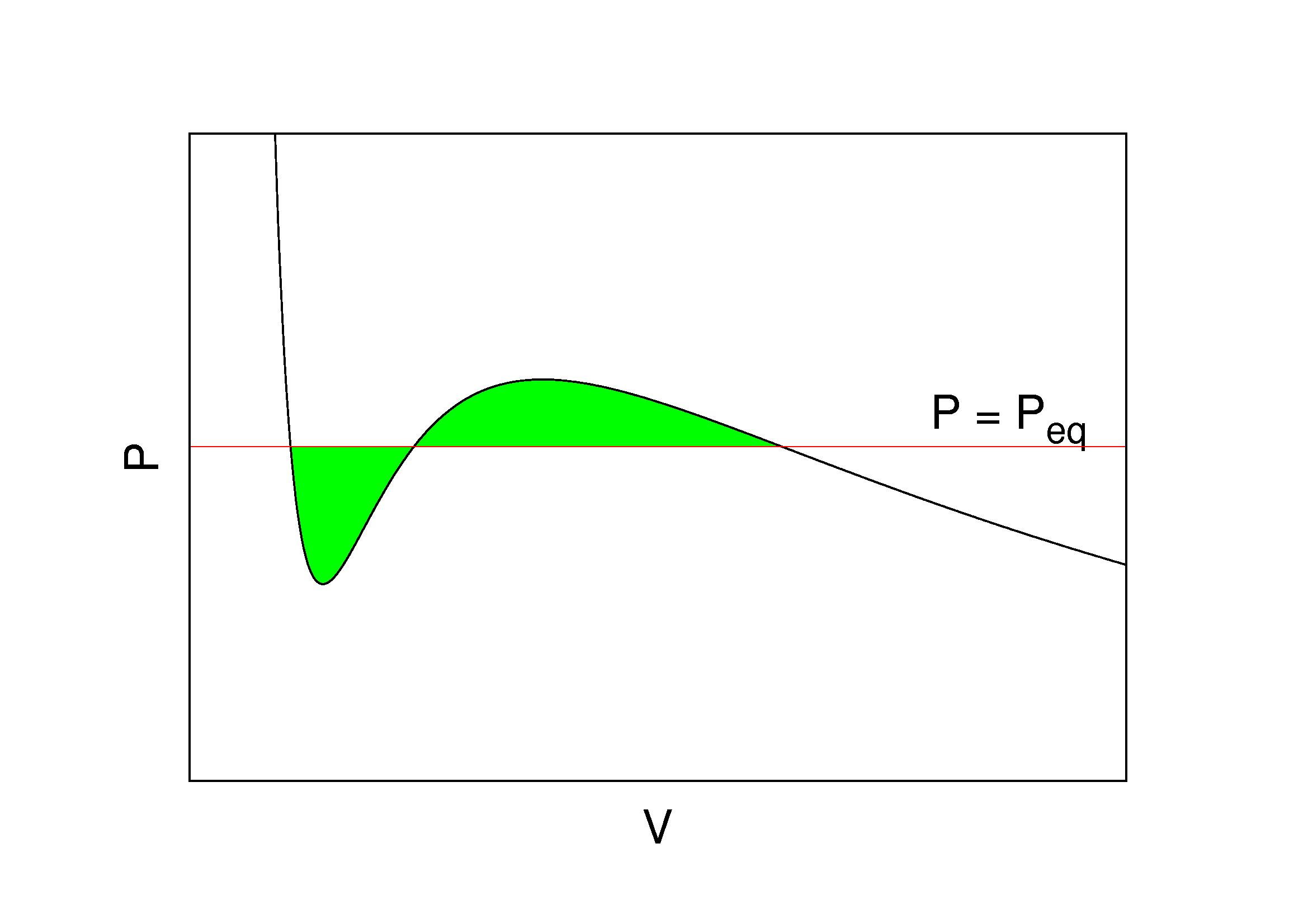 Isotherm of a Van der Waals gas at a temperature below T c {\displaystyle T_{c , and the associated Maxwell construction